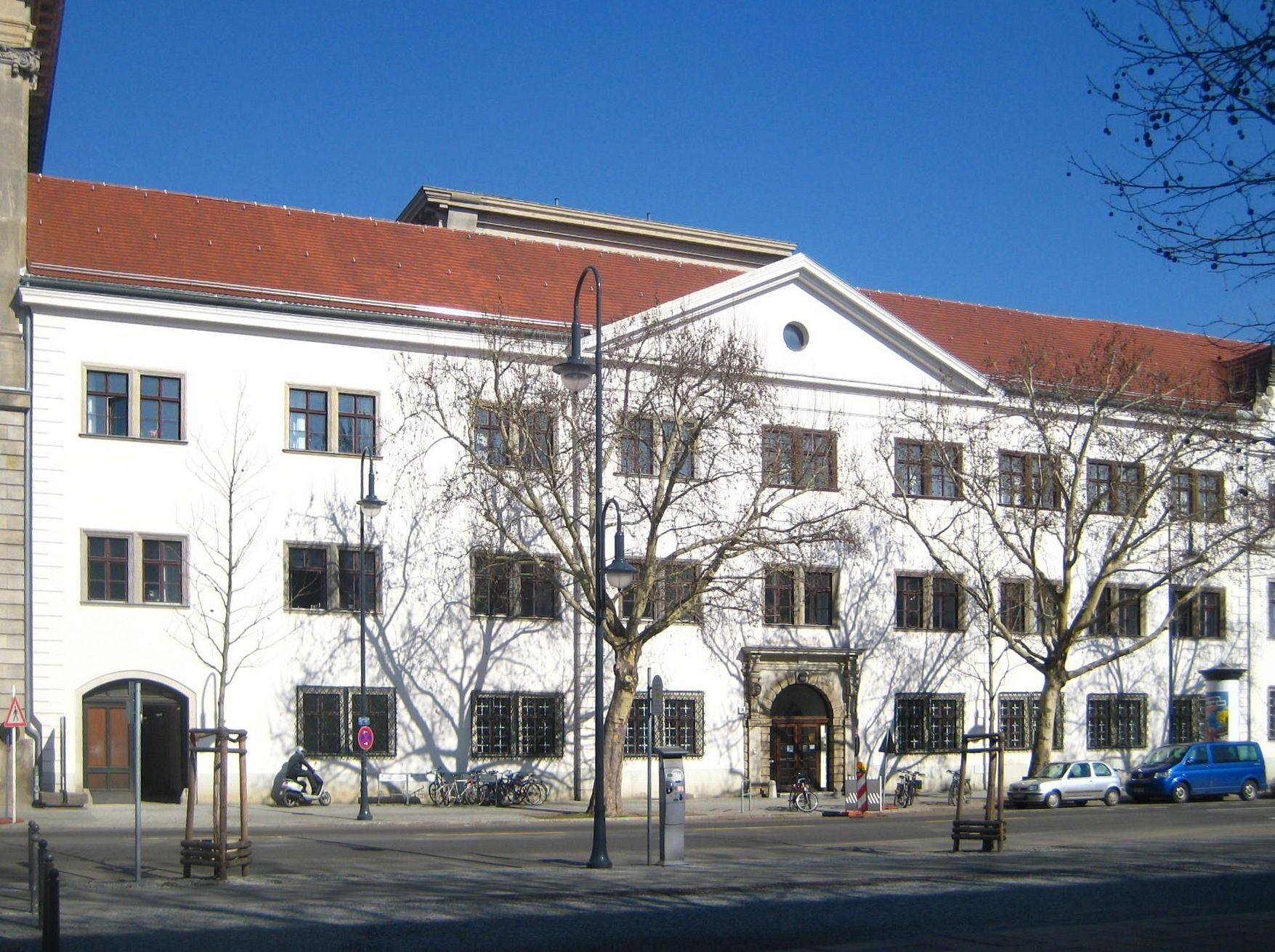 The Alter Marstall (Old Royal Stables) at Breite Straße No. 36 in Berlin-Mitte. The early baroque building was constructed 1665 to 1670 to a design by the architect Matthias Smids. It has been designated as a historic landmark.